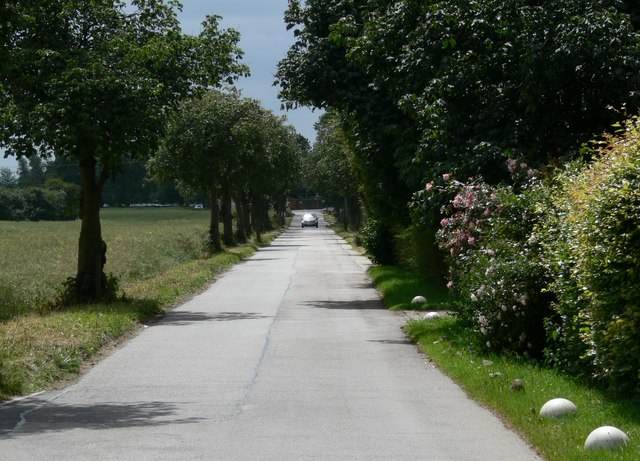 Driveway to Ragdale Hall Health Hydro and Thermal Spa